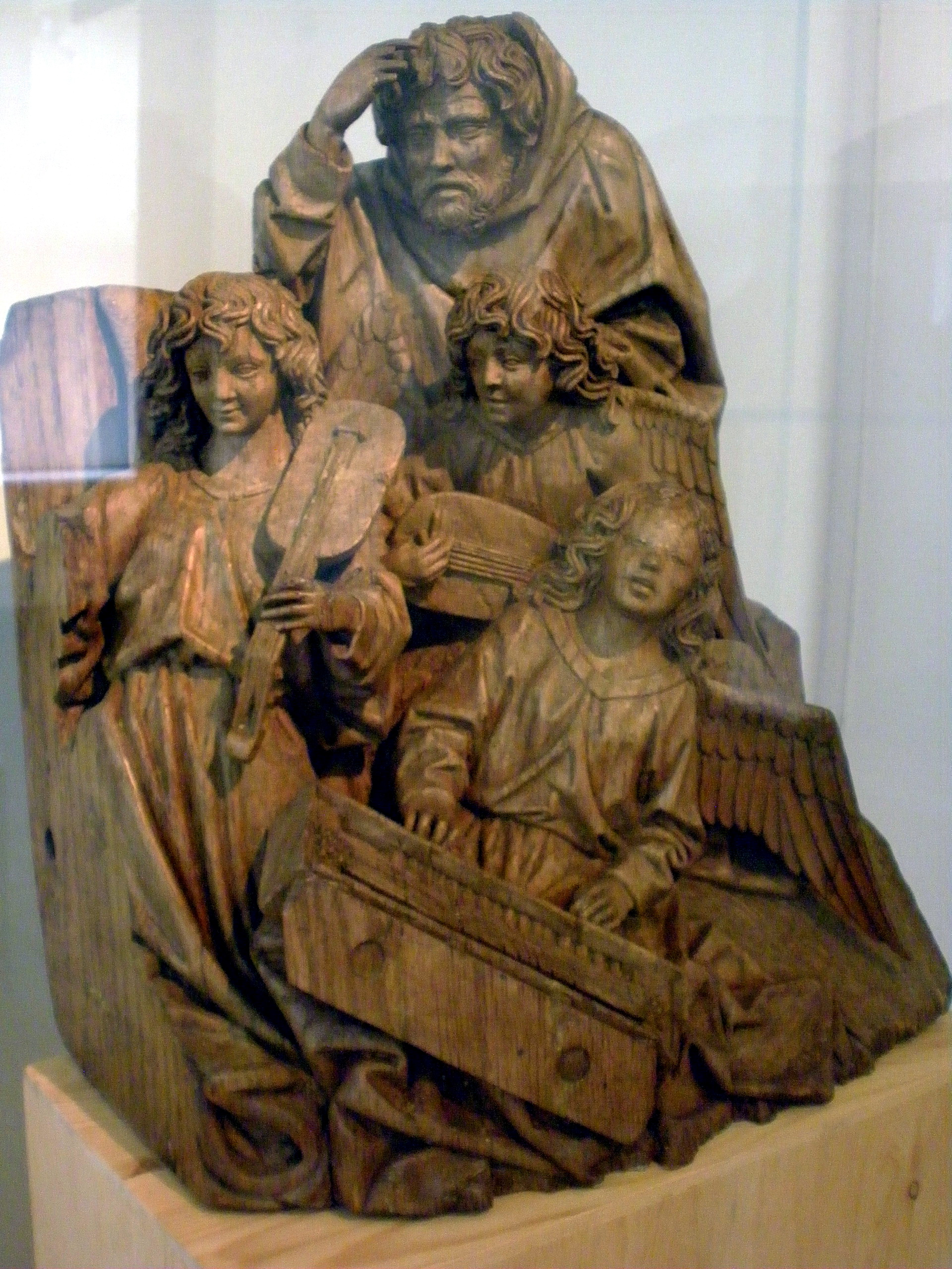 Uden, the Netherlands, Museum of Religious Art. Late medieval wooden relief of Saint joseph and three angels with musical instruments by Adriaen van Wesel (c 1475-77)